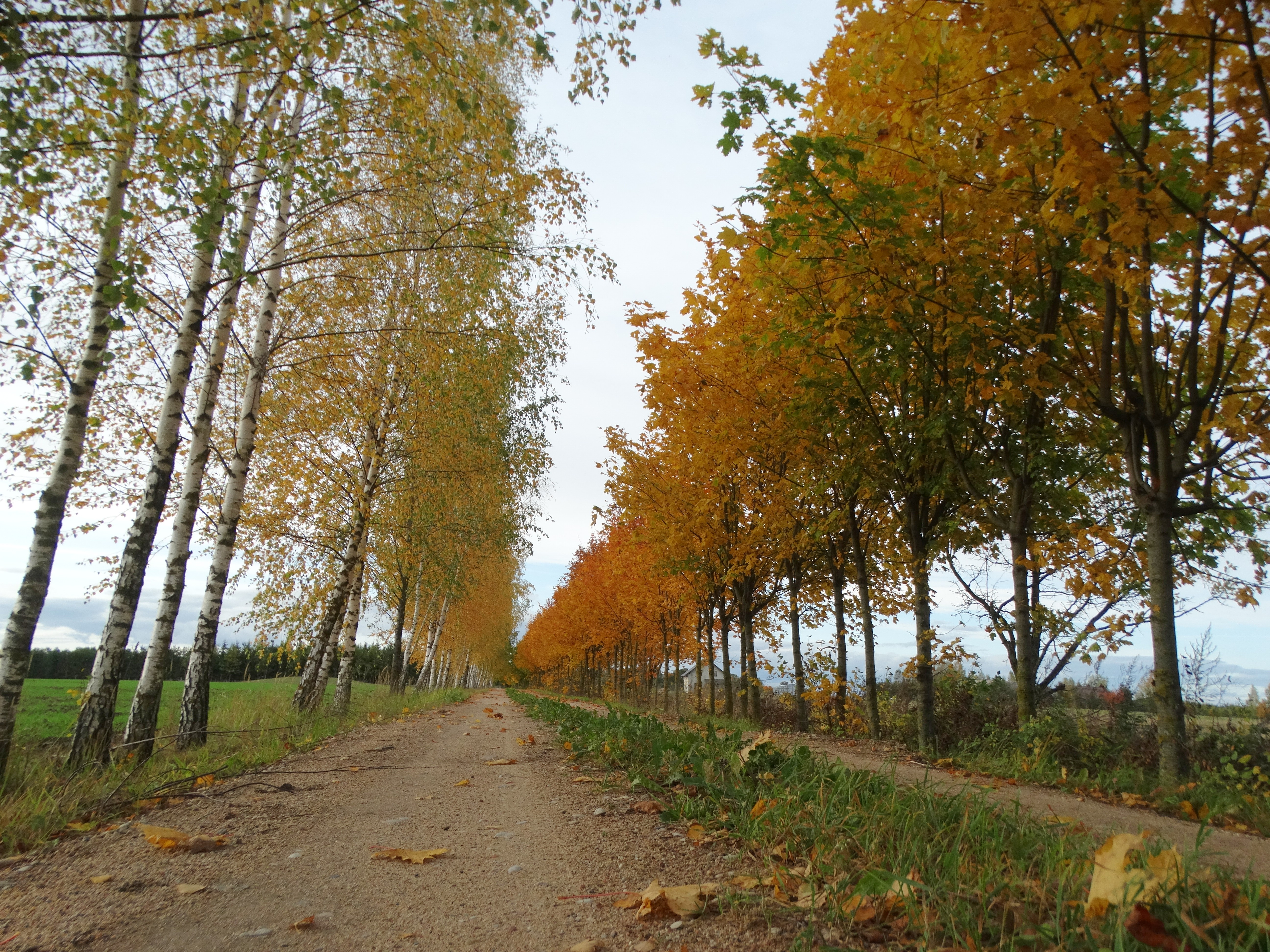 Margininkai, Prienai district, Lithuania